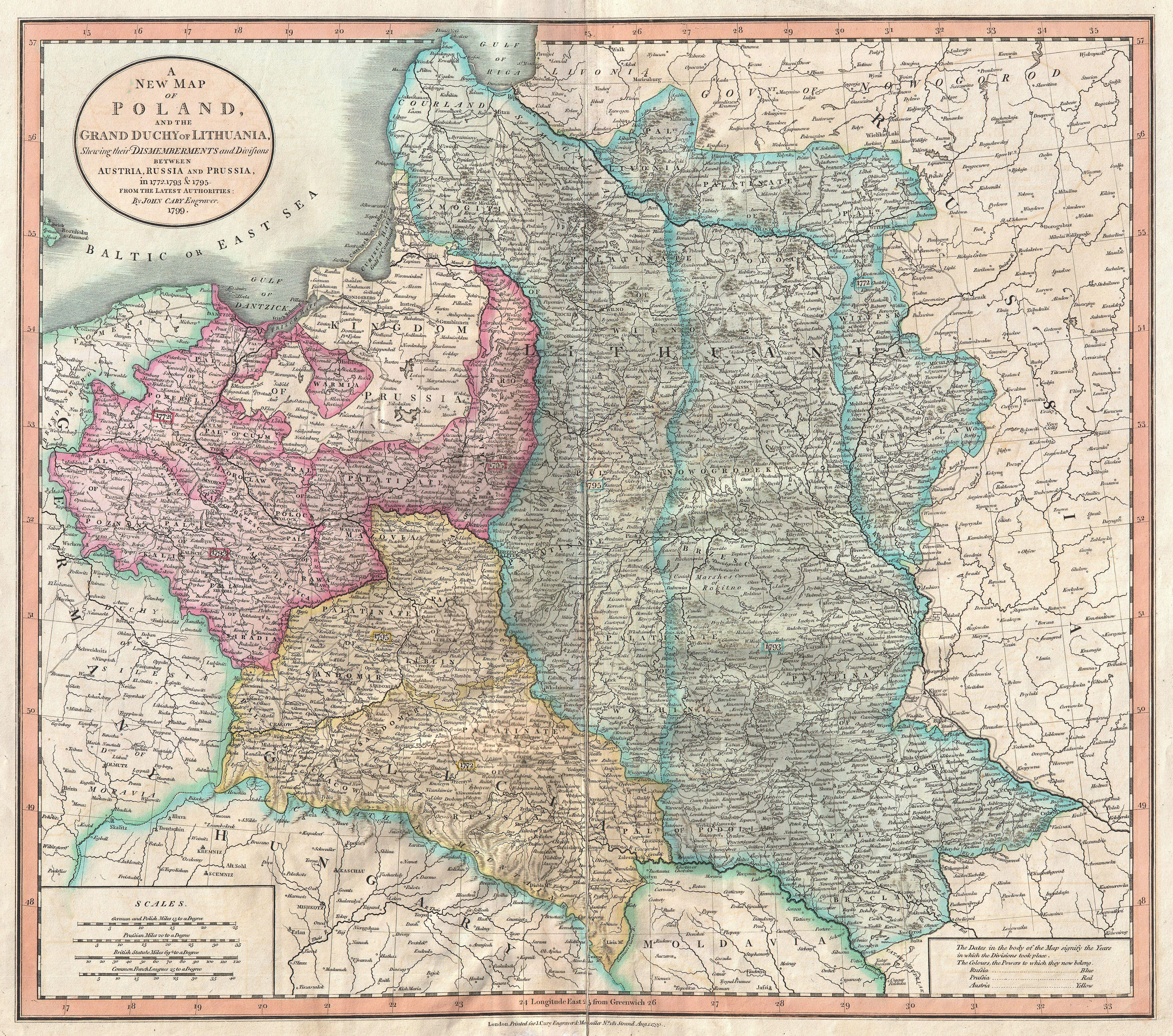 A nice example of John Cary’s rare 1799 map of Poland. Covers the entire block of territory claimed by the Polish-Lithuanian Commonwealth (Rzeczpospolita) from the Baltic Sea south to Hungary and eastward as far as Russia. This map is designed to illustrate the partitioning of Poland between Austria, Russia and Prussia at the end of the 18th century – just a few years before this map was published. Russia claimed the bulk of what once comprised the Grand Duchy of Lithuania from Livonia south to Moldava. Prussia claimed the territory east of Warsaw and south to Galicia. The Austrian Empire annexed Galicia. Poland remained thus divided until the end of World War I. In 1919 United States President Woodrow Wilson called for the reconstitution of Poland in his historic Fourteen Points. This map was prepared in 1799 by John Cary for issue in his magnificent 1808 New Universal Atlas .